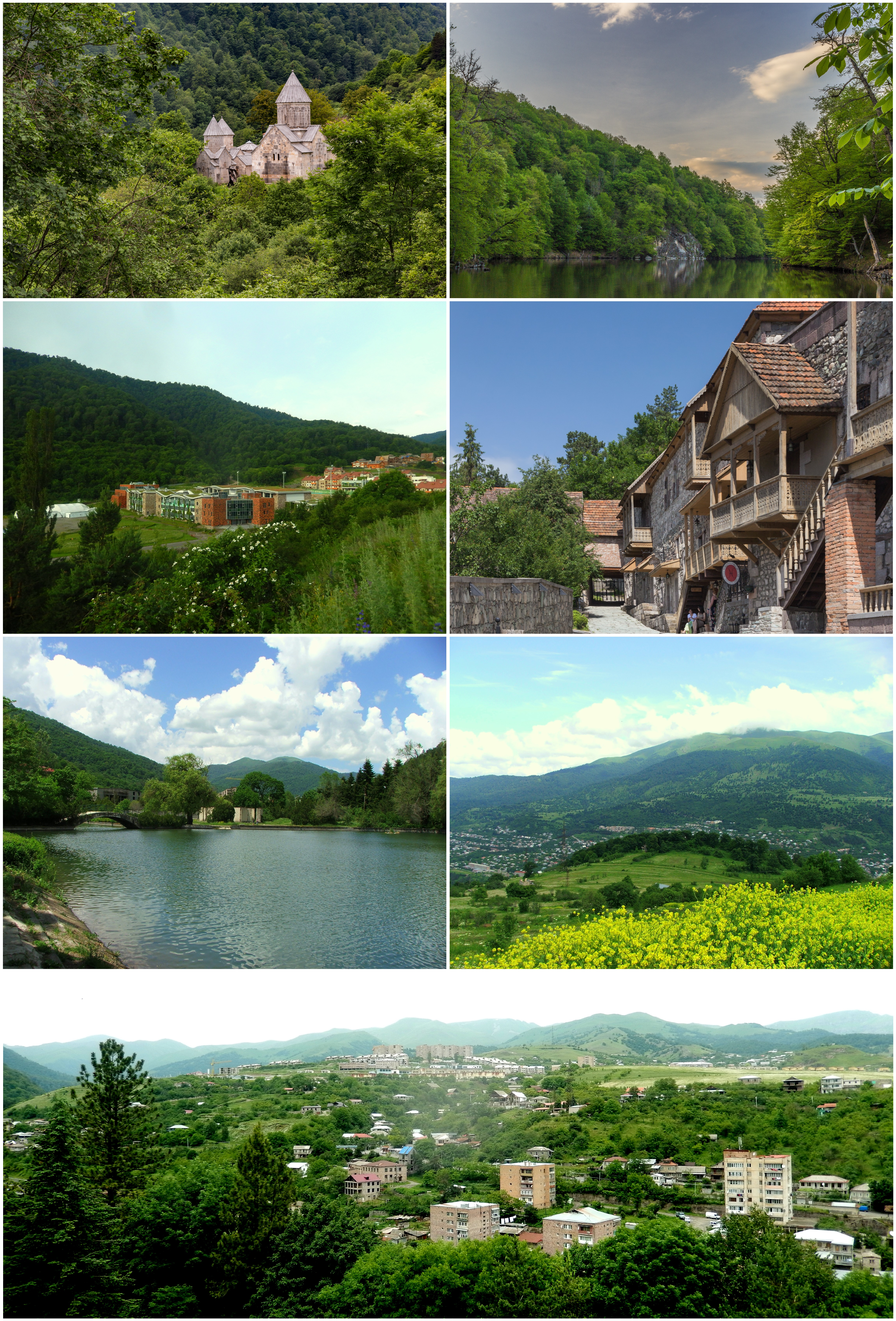 Dilijan collection of photos, Tavush, Armenia.